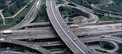 The Mostar Interchange (eastern half)